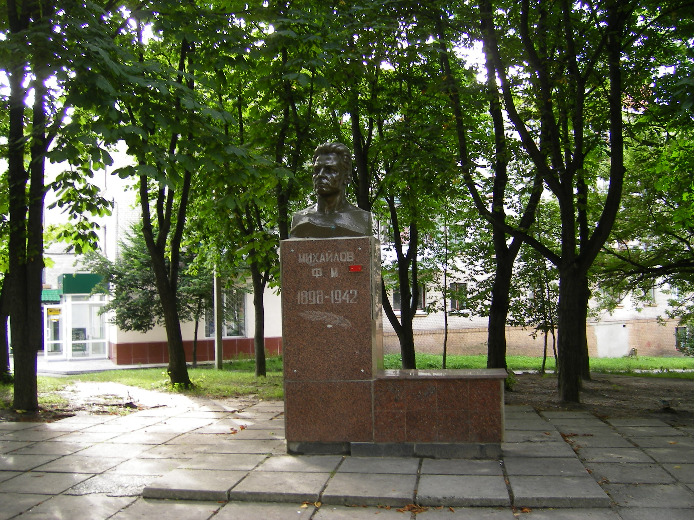 Slavuta. Monument to Hero of the Soviet Union of Great Patriotic War 1941-1945, Fyodor Mikhajlovitch Mikhailov.